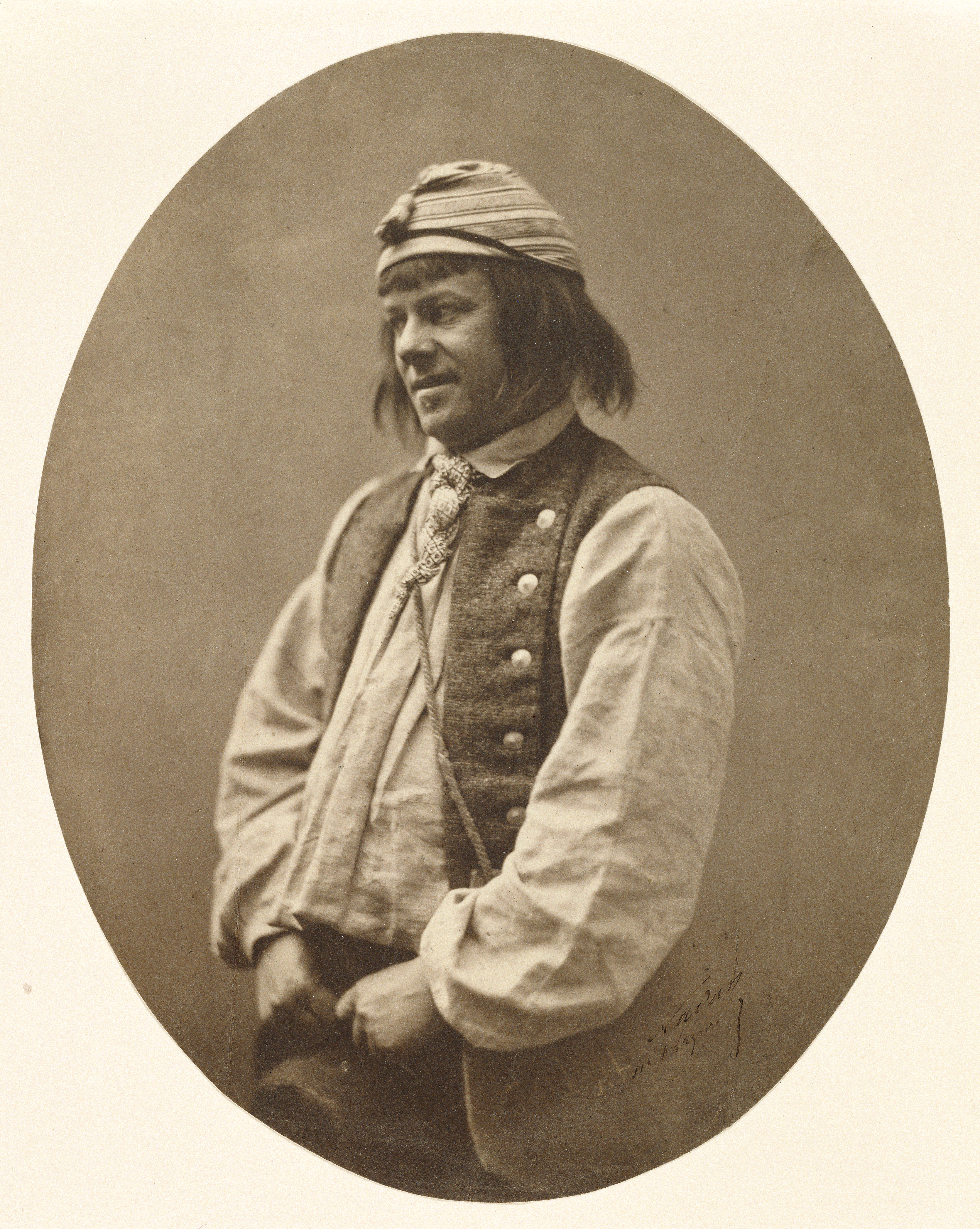 Photo portrait by Nadar of Jean-François Berthelier (1830–1888), a French comedian and singer